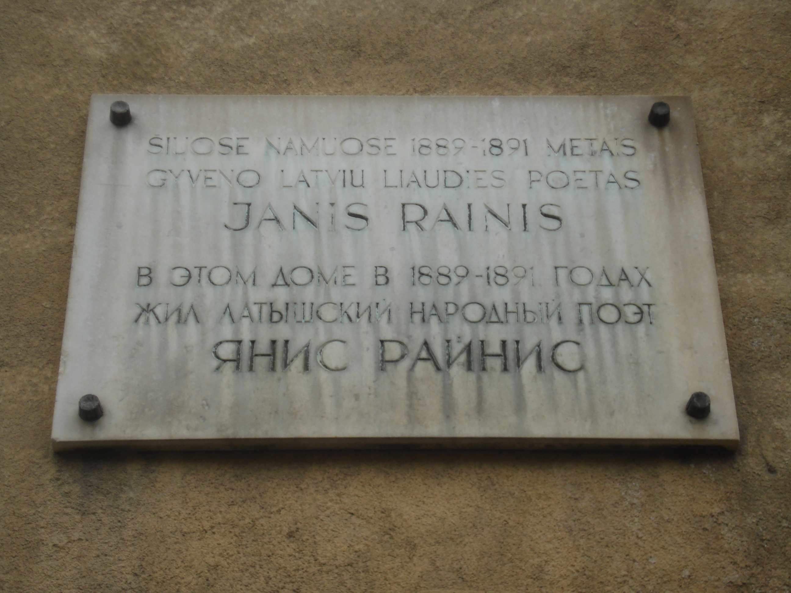 Tablet in memory of Latvian poet Janis Rainis who lived in this house in 1889-1891 (Maironio 15)